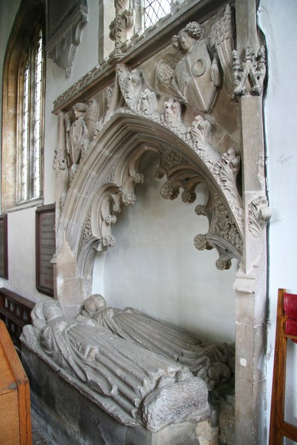 Trinity Chapel tomb Hidden behind the organ in the Trinity chapel of St.Mary & St.Peter's church - a richly ornamented canopied niche with lifesize alabaster effigies of an undated and unknown man and woman. They are thought to be either John Bluett, Lord of the Manor in the 15th century and his wife or more likely Sir Richard Rickhill and wife. The style dates the tomb to the early 15th century.